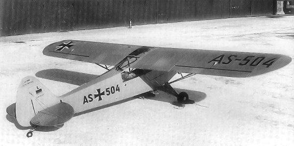 German Air Force Piper L-18C (AS-504) - Neubring AB Germany, 1956 Source: United States Air Force Historical Research Agency, Maxwell AFB Alabama